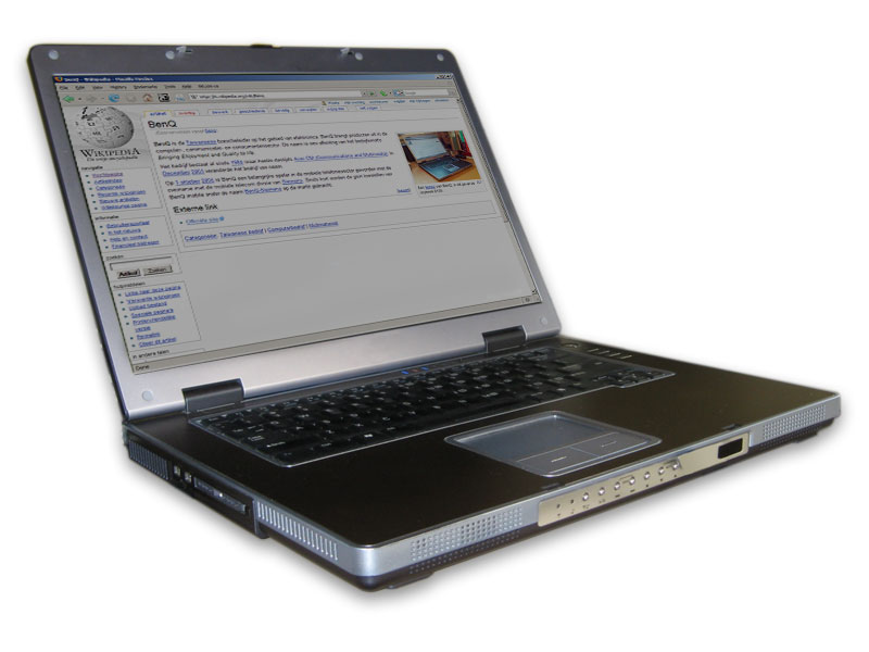 My BenQ Joybook 8100 showing the Dutch BenQ article. JPG version with white background.